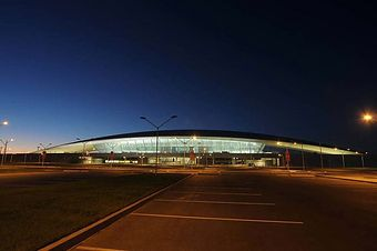 Carrasco International Airport